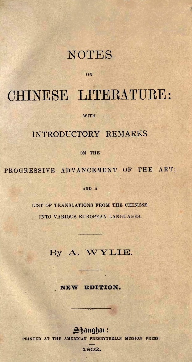 Book cover: Notes on Chinese Literature